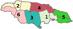 Image shows the administrative zones of Jamaica used by the Jamaica Library Service